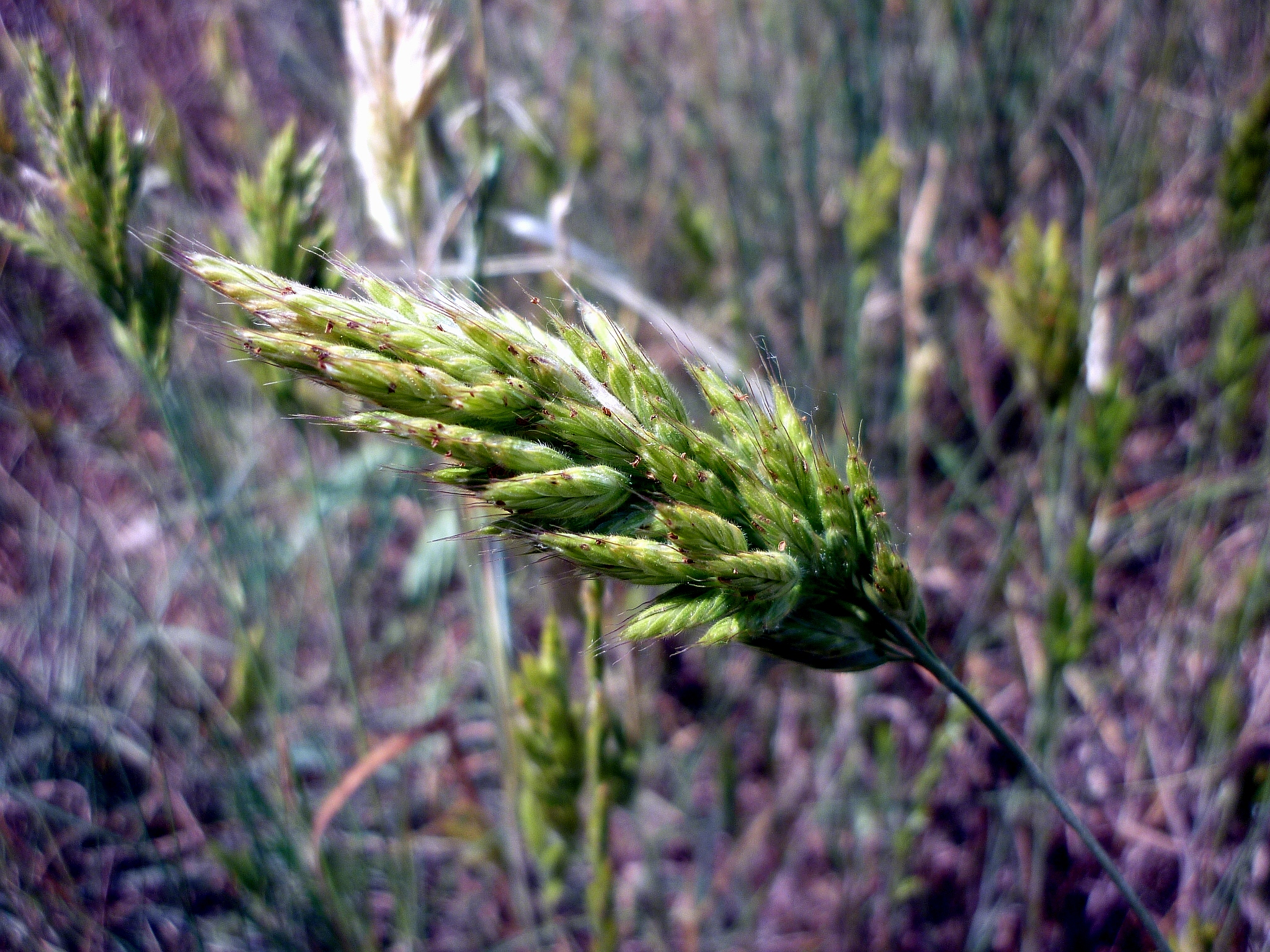 Bromus hordeaceus. In Torà (Segarra-Catalunya). To 565 m. altitude